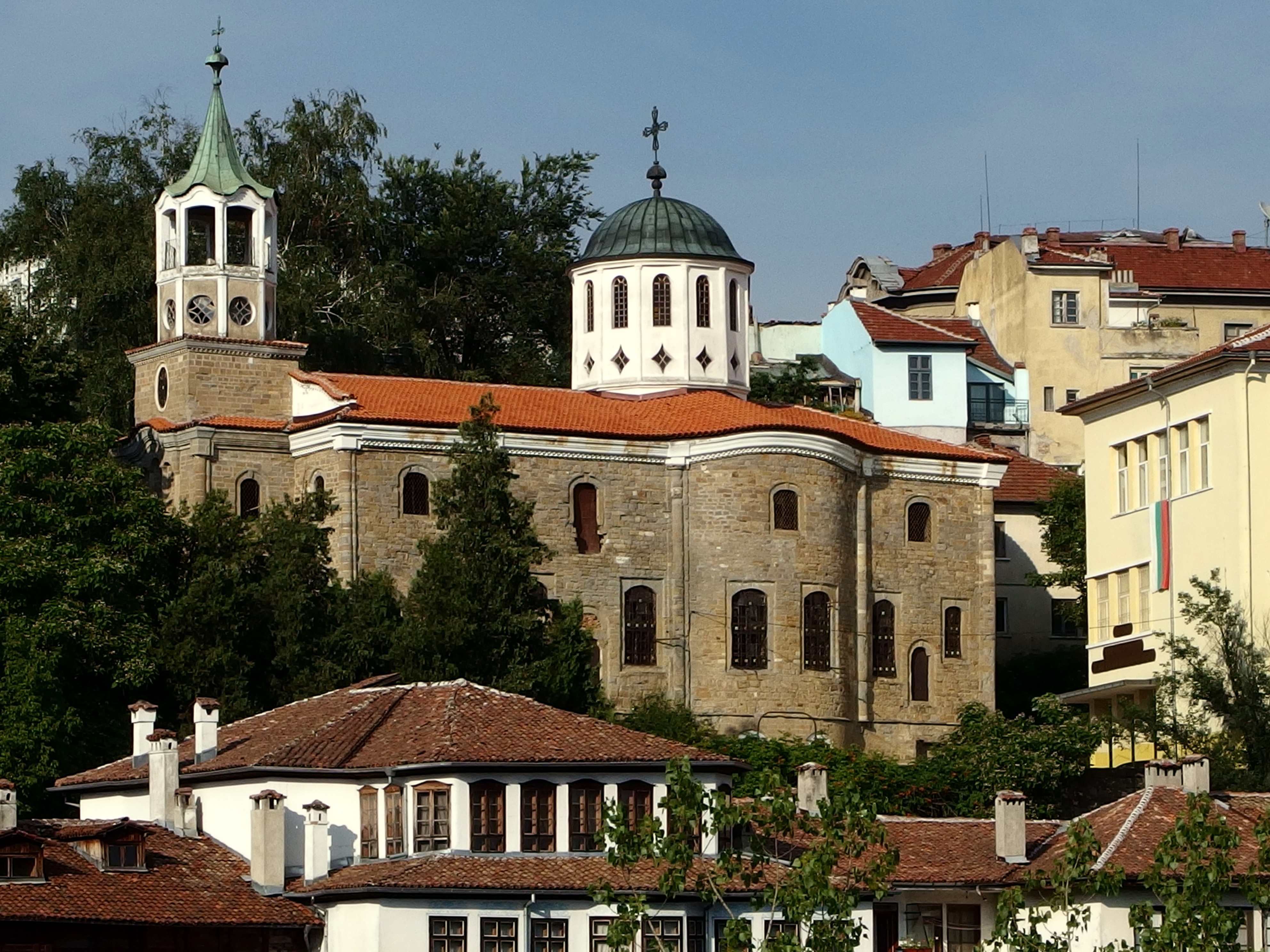 2014-06-20 in Veliko Tarnovo.